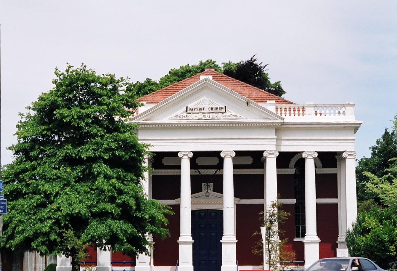 The Oxford Terrace Baptist Church in full glory on 3 March 2008. Since destroyed in the 22 February 2011 earthquake that levelled much of the central city.